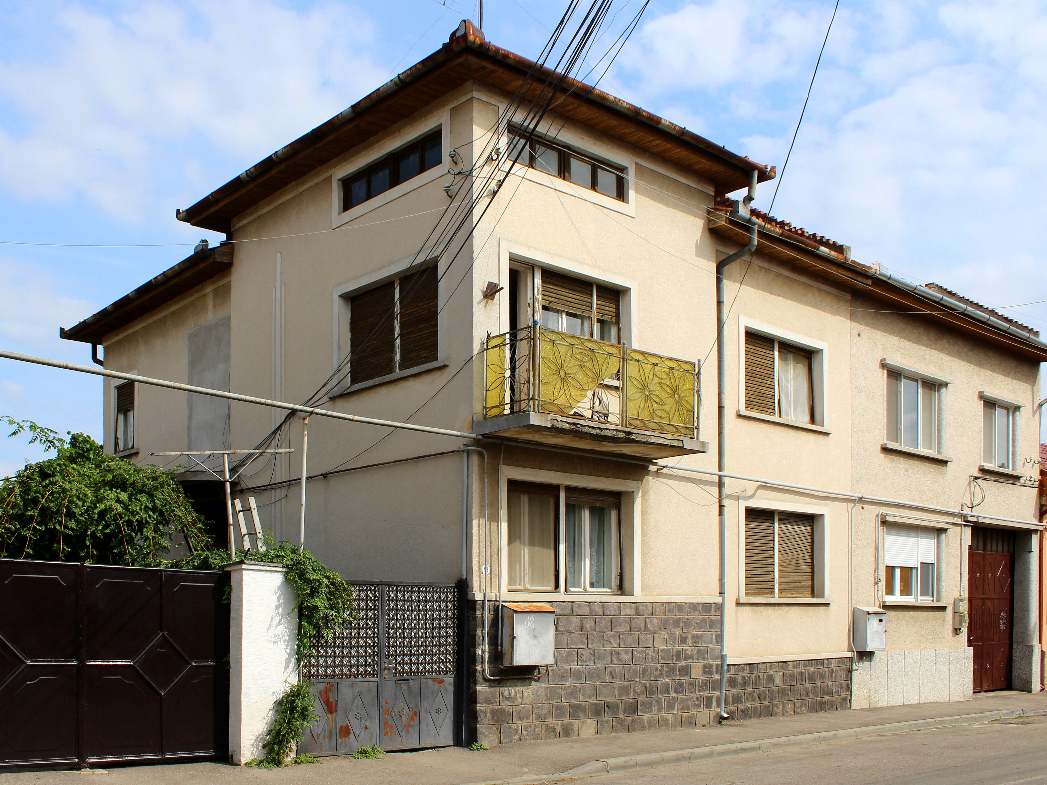 House of writer Ion Popovici Bănățeanu, Lugoj, Romania